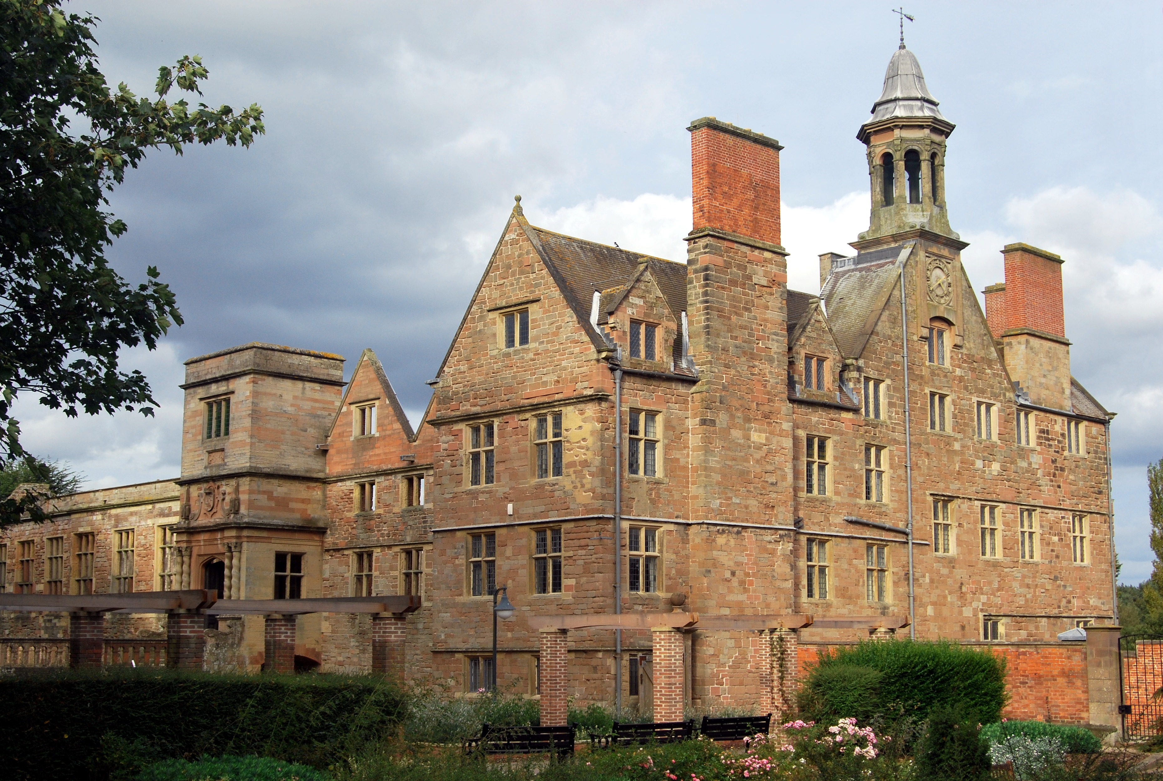 Rufford Hall from the south west corner. September 2009. Lovely afternoon sunlight.